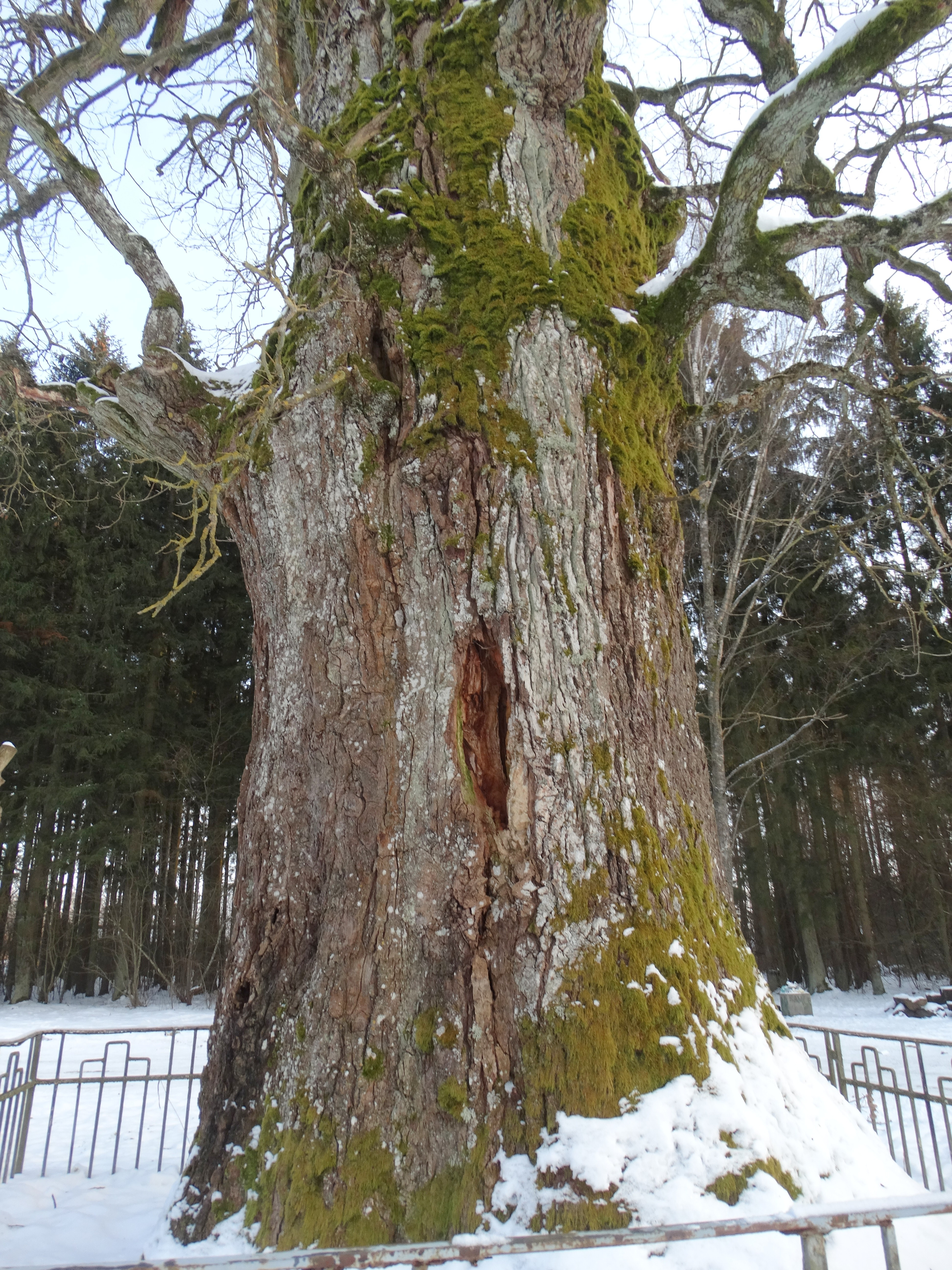 Pagryniai Oak, Šilutė, Lithuania